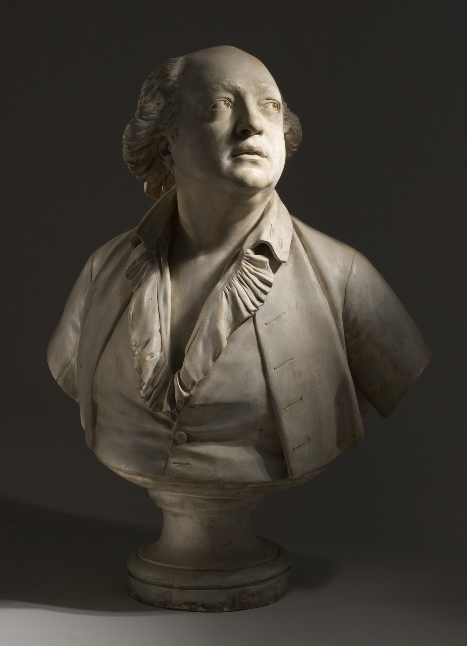 France, Paris, circa 1786 Sculpture Plaster Gift of Count Cecil Charles Pecci-Blunt (62.18) European Sculpture Currently on public view: Ahmanson Building, floor 3